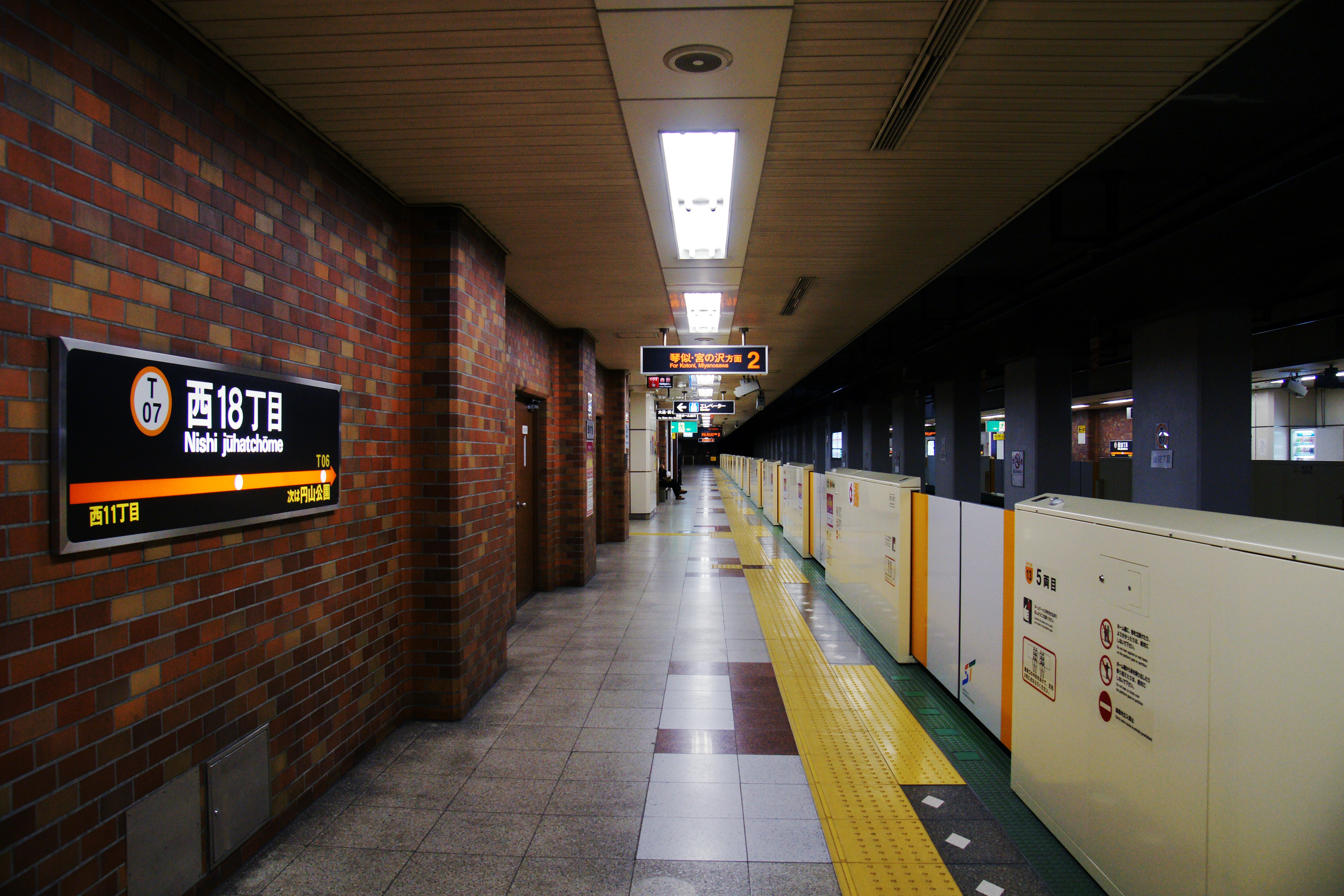 Nishi juhatchome Station in Sapporo, Hokkaido prefecture, Japan